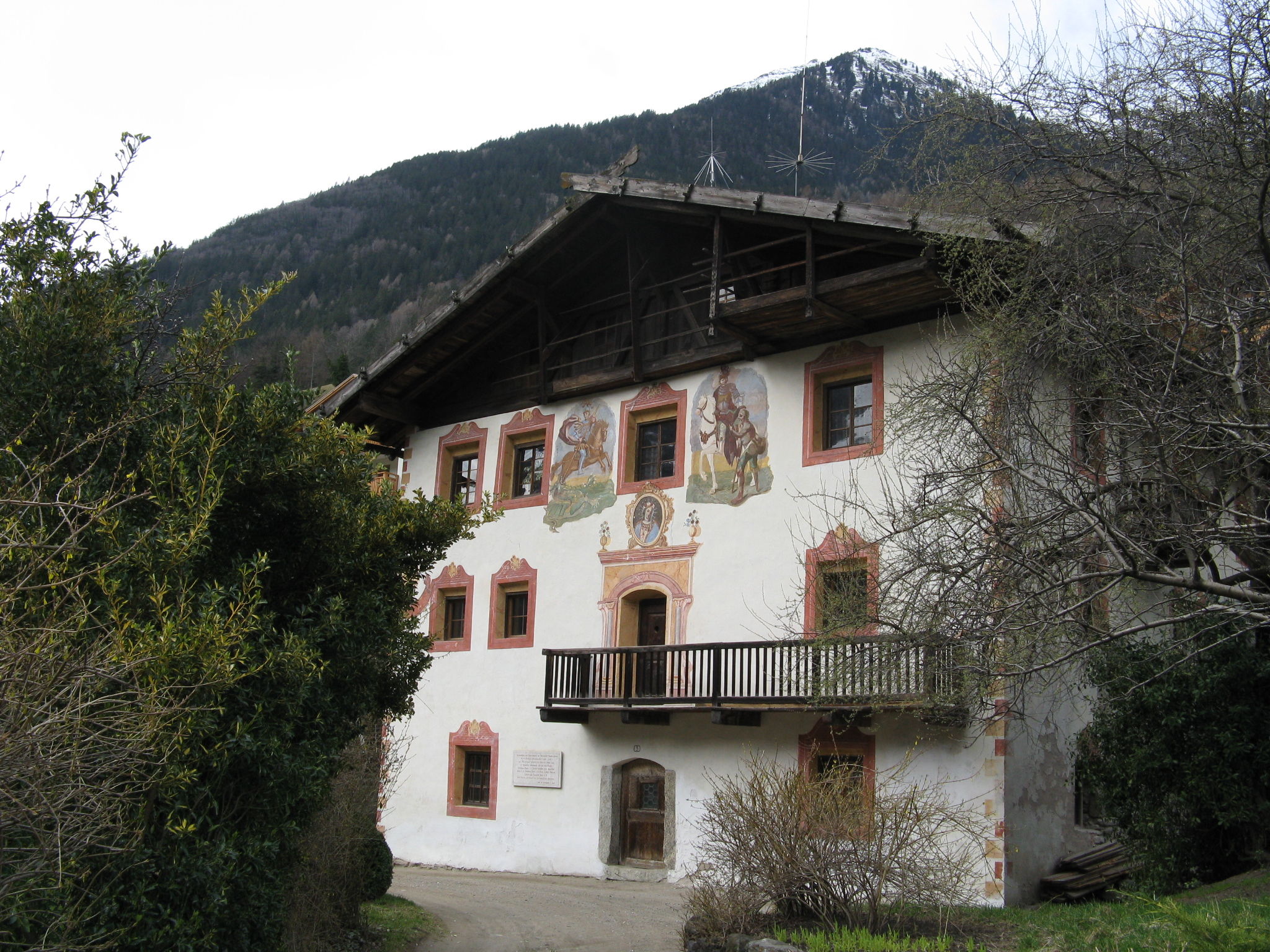 Painters' School, St. Martin in Passeier, South Tyrol/Italy